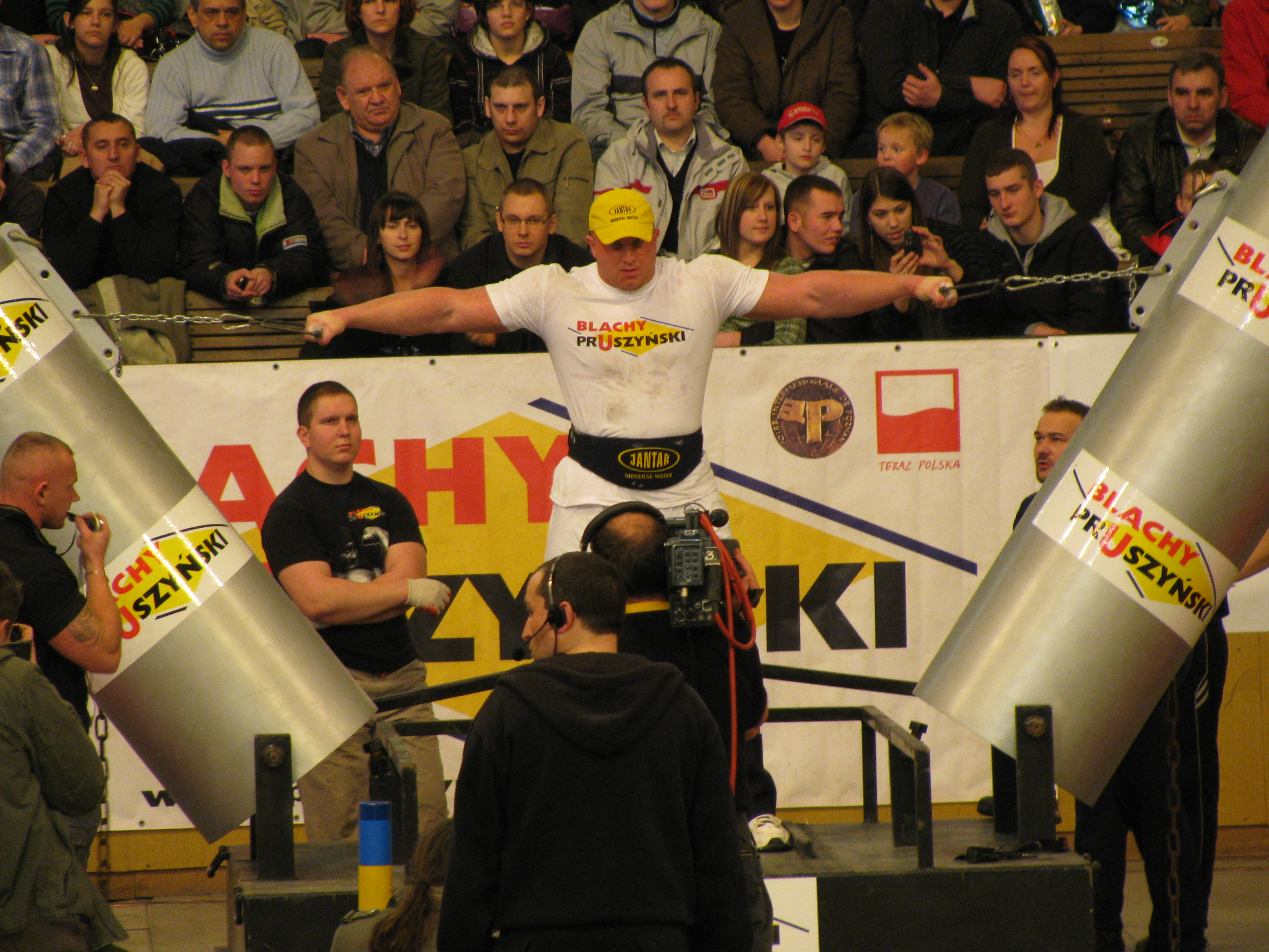 Grzegorz Szymański - a Polish strength athlete during the Battle of The Giants competition, Poland, Łódź City, february 2009